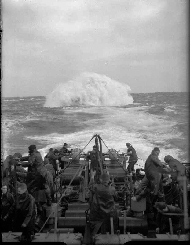 The Battle of the Atlantic 1939-1945 Anti-Submarine Weapons: A depth charge explodes astern of HMS STARLING. Mk VII depth charges, which were the standard anti-submarine weapon at the beginning of the Second World War, can be seen in the racks on the quarter-deck.